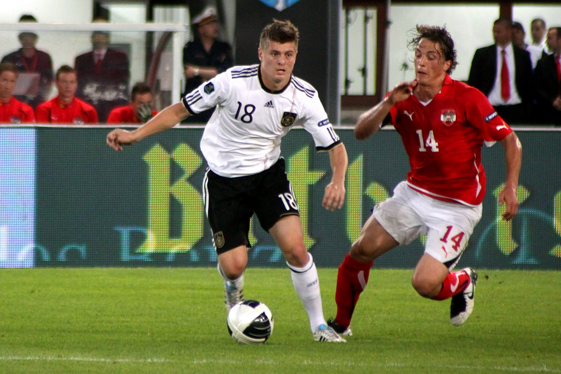 Qualifying for the UEFA Euro 2012 Austria (red shirt) vs. Germany (white Shirt) 1:2 (0:1) at 2011-06-03 in Vienna (Ernst-Happel-Stadion) — The photo shows (fron left to right): Toni Kroos (FC Bayern München), Julian Baumgartlinger (FK Austria Wien).